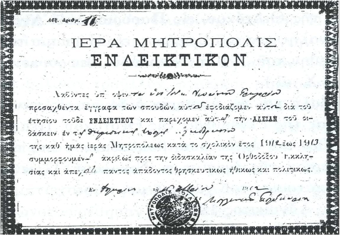 Document of Moglen Mitropoly 1912-1913